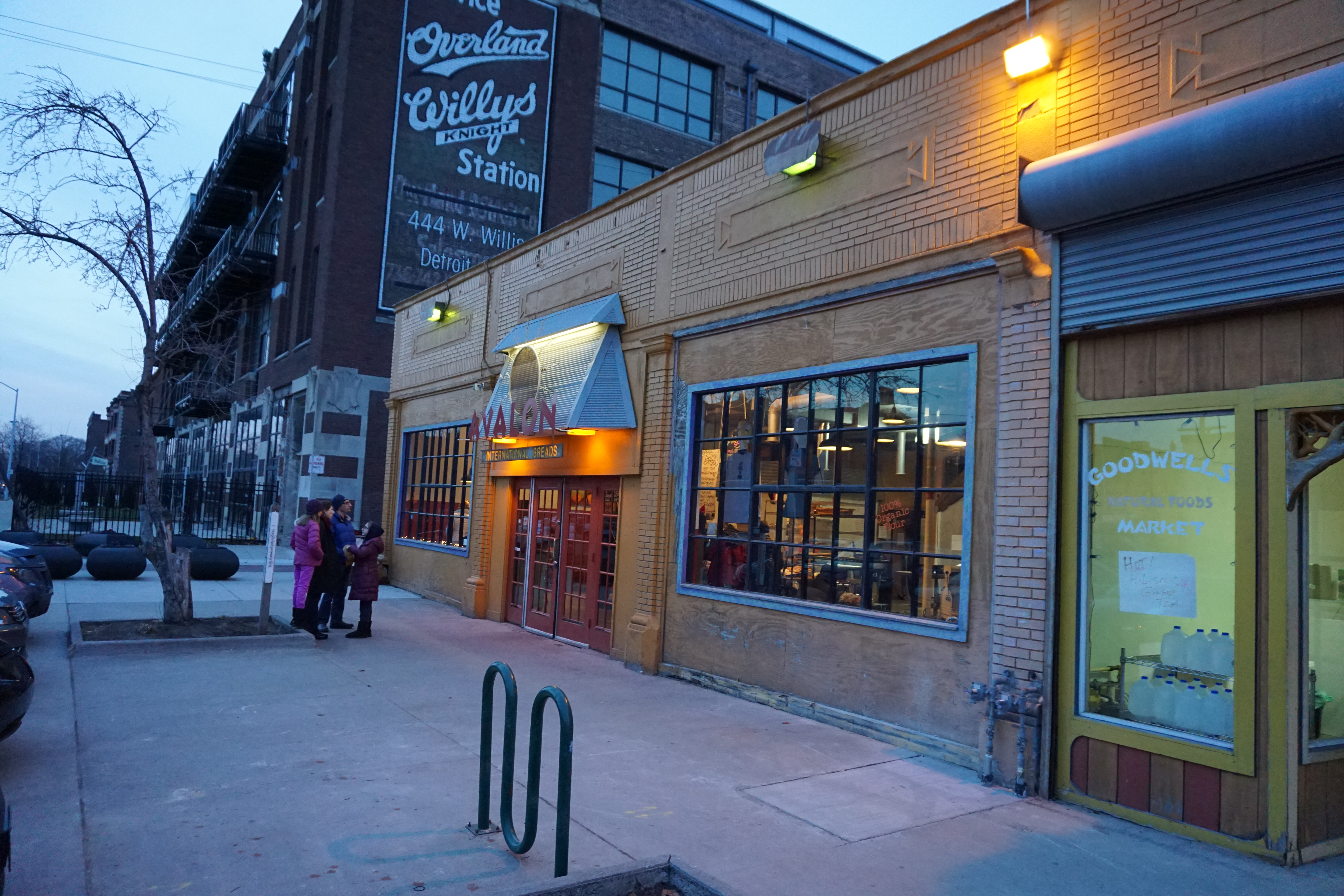 The exterior of Avalon International Breads in Detroit, Michigan (United States).